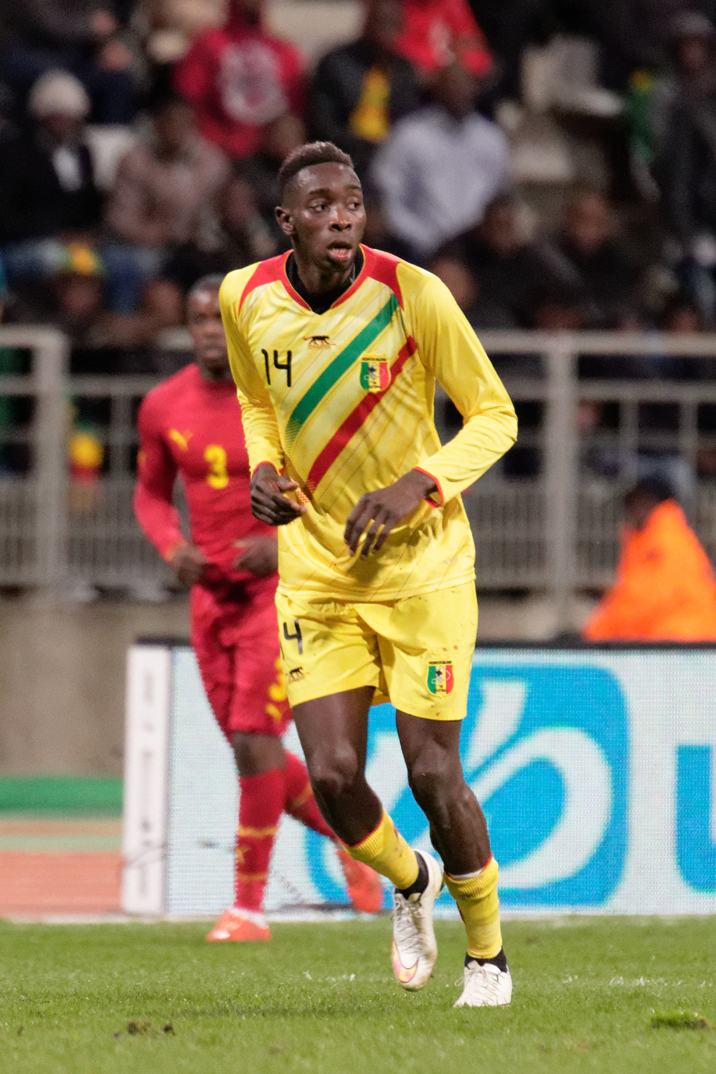 Mali vs Ghana, exhibition game at Paris, 31st March 2015.